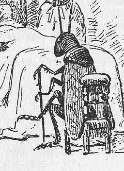 An illustration of The Talking Cricket by Enrico Mazzanti from "Le avventure di Pinocchio" (The Adventures of Pinocchio) by Carlo Collodi.